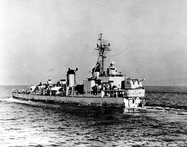 The U.S. Navy destroyer USS Ernest G. Small (DD-838) underway going astern, while en route to Kure, Japan, after losing her bow. She hit a mine while operating off North Korea on 7 October 1951, and the damaged bow broke away in heavy seas four days later.